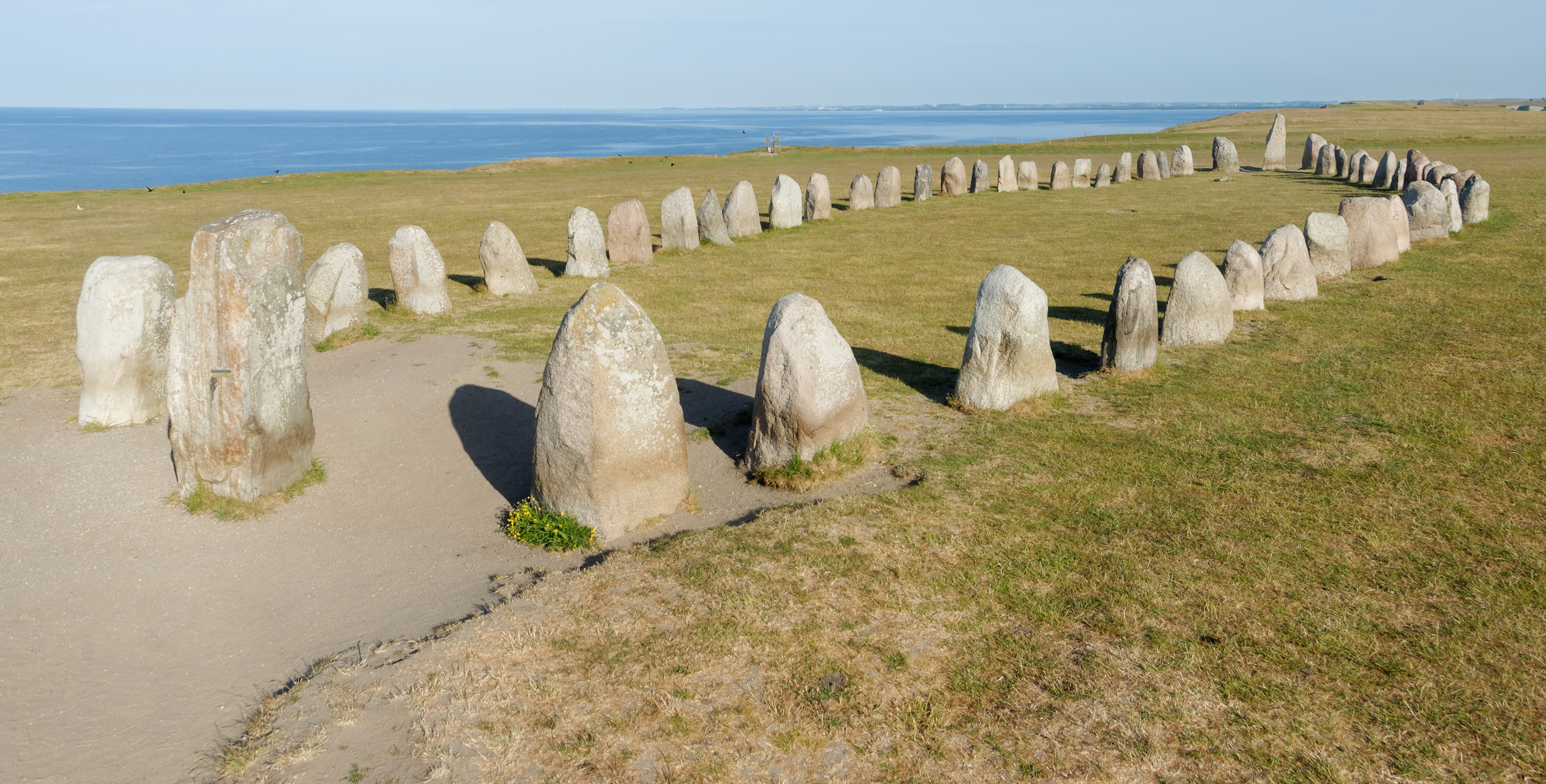 Ales Stenar seen from about 4 m above ground Image taken using a monopod-mounted camera.